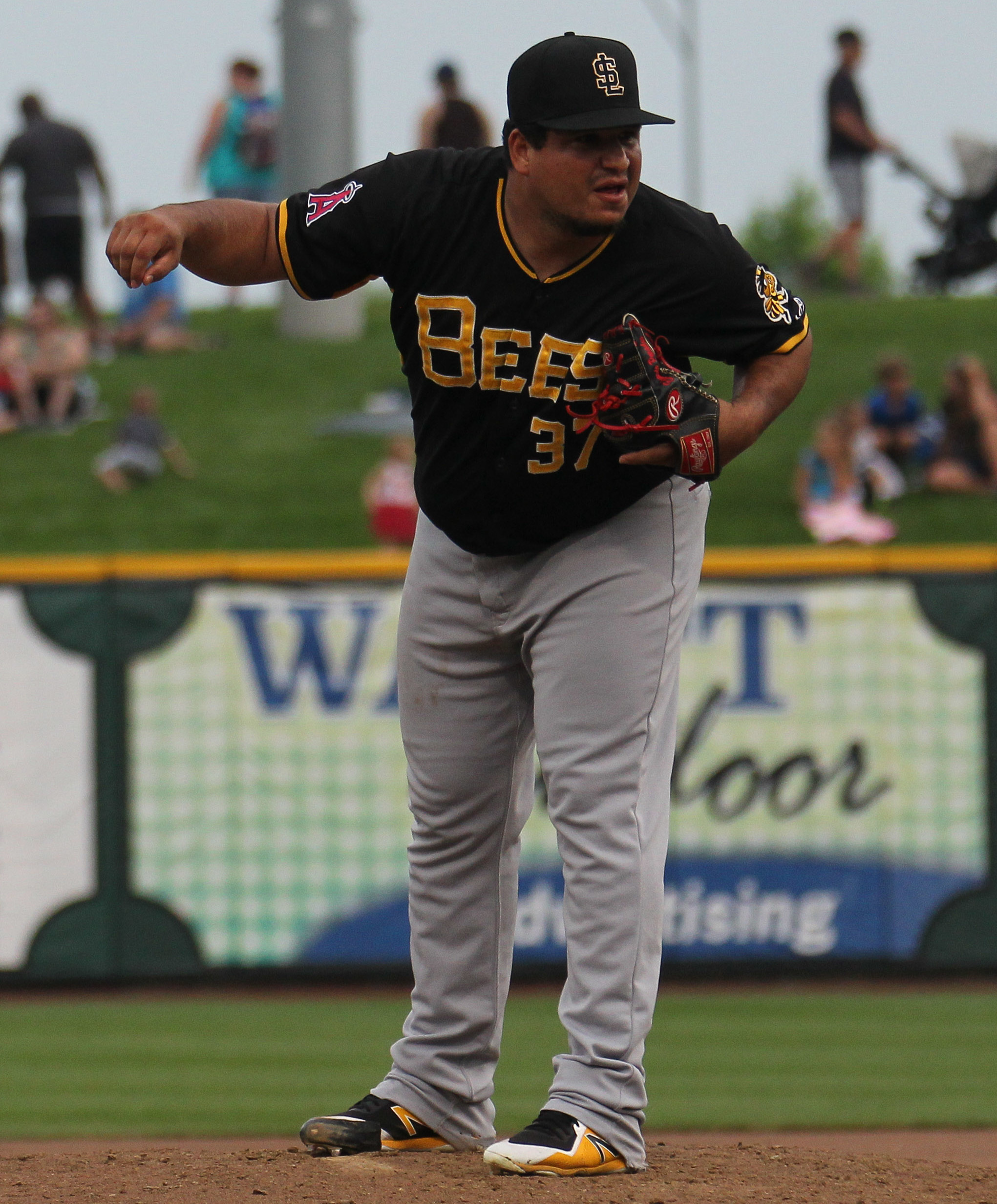 Eduardo Paredes on the mound for the Salt Lake Bees during a 2018 game against the Omaha Storm Chasers at Werner Park in Omaha